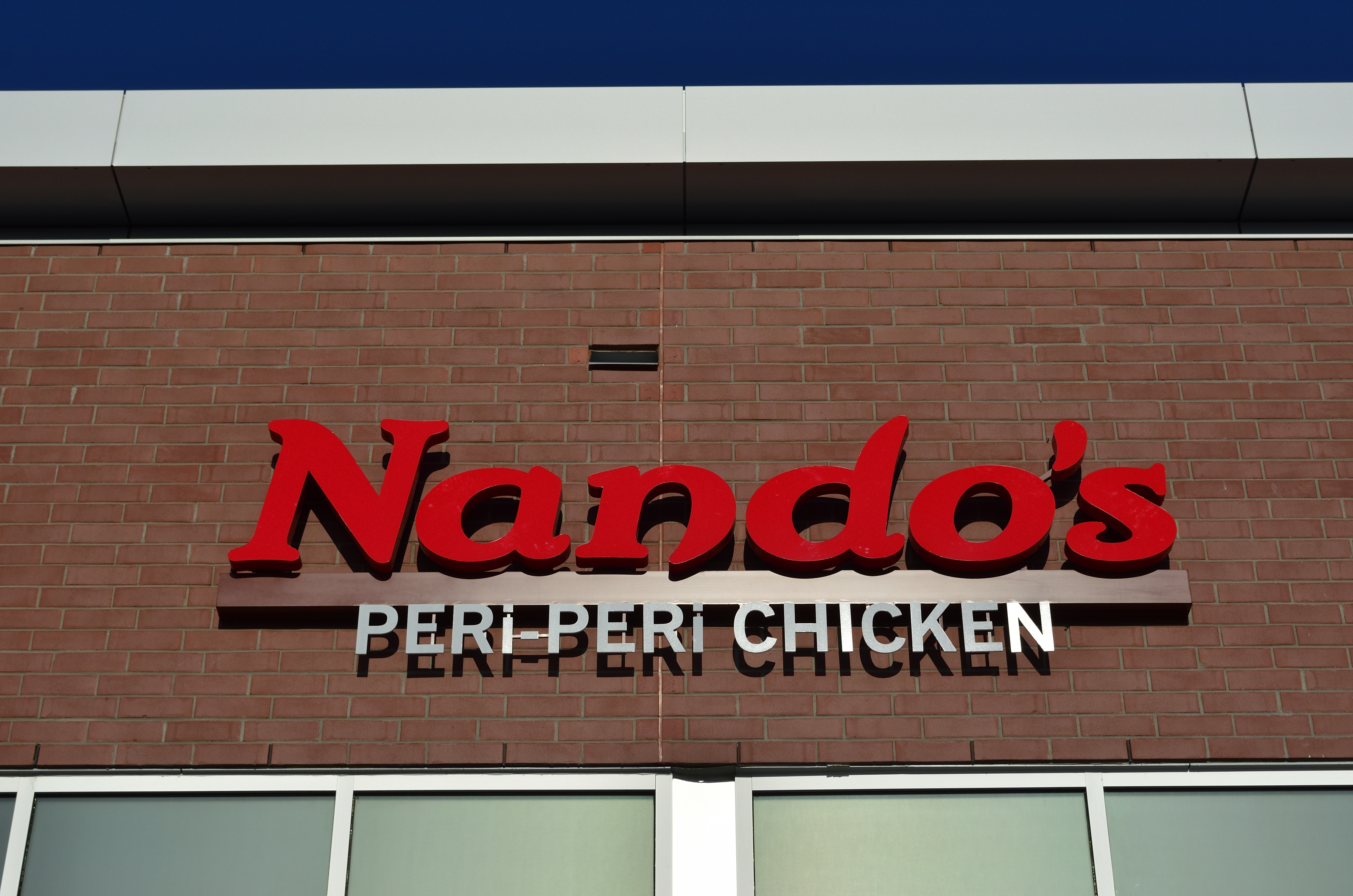 Nando's in Markham, Ontario